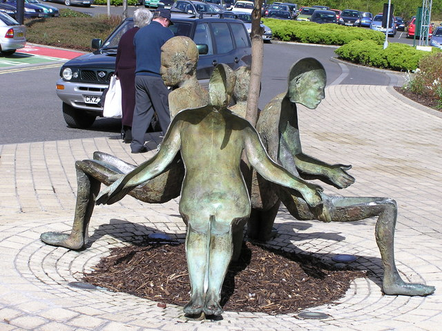 Sculpture / Bench. This unusual seat is located outside the entrance to the Antrim Area Hospital